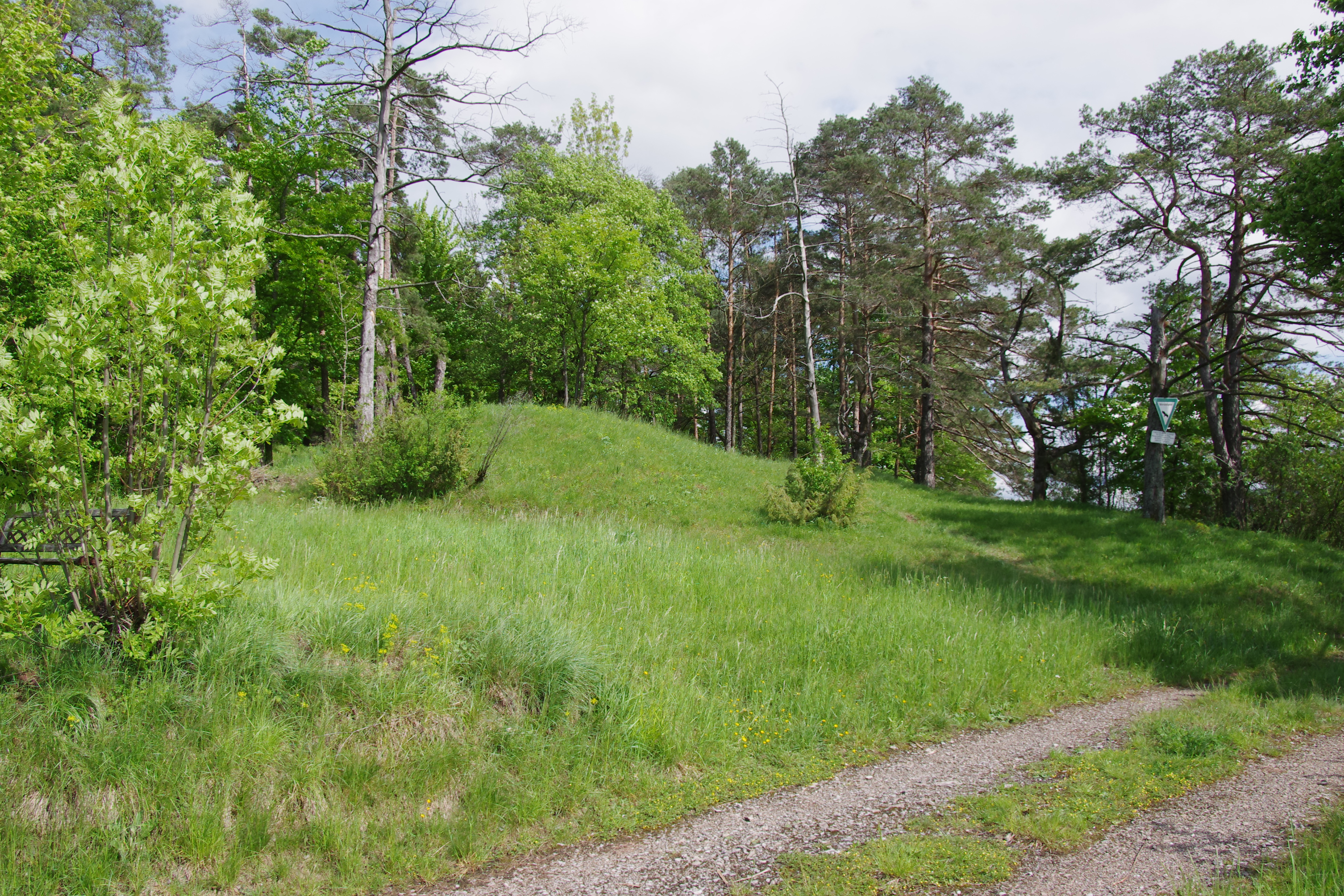 Nature reserve Roter Burren (= Red Hill) near Plüderhausen, Baden-Württemberg, Germany